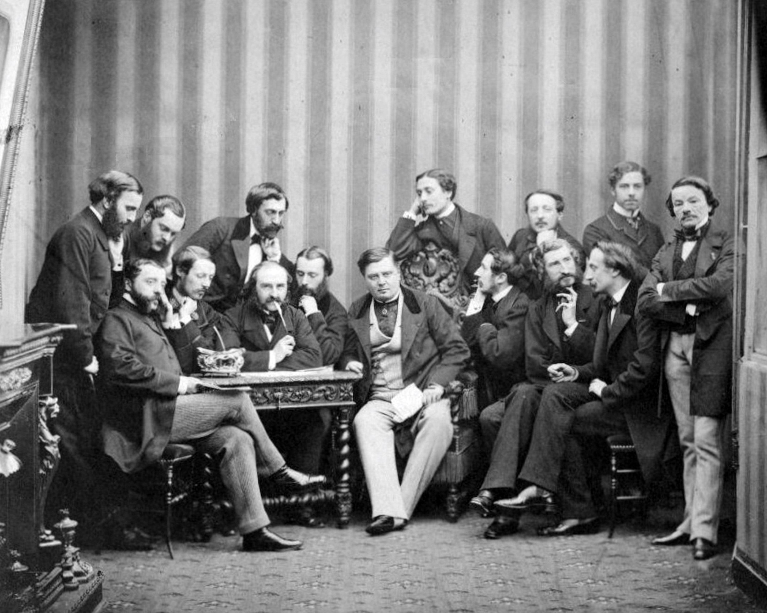 Alexandre-Joseph-Colonna, Count Walewski, born in Poland at the castle of Walewice on 4 May 1810, of the loves of Napoléon Ier and Countess Marie Walewska, does not admit remarks on his resemblance to the Emperor. Senator, he became Minister of Foreign Affairs of Napoleon III, from 1855 to 1860. Around Count Walewski, from left to right : baron Robert de Billing, le marquis de Trévise, Prosper Ernest des Vallières, Tamisier, Paul de Monicault, Caumont, Arthur Jean Merault, Armand, baron Frédéric de Billing, Laboulaye, comte de Saint-Vallier, Cabrol, le comte de Castelvecchio, Albert Félix Ignace de Biberstein-Kazimirski.